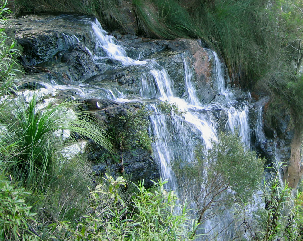 The Goomoolahra Falls are located on the Springbrook Plateau of the Gold Coast Hinterland, Gold Coast Queensland Australia.